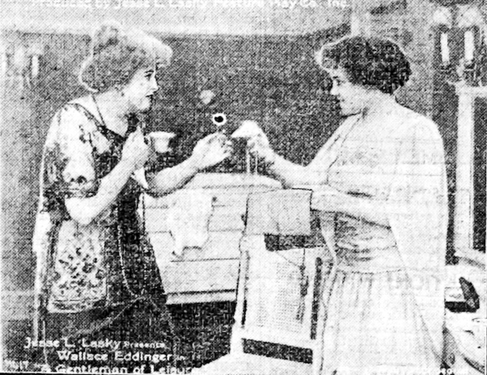 A Gentleman of Leisure is a surviving 1915 silent comedy film produced by Jesse Lasky and distributed by Paramount Pictures. This is a scene from the film published in a contemporary newspaper.